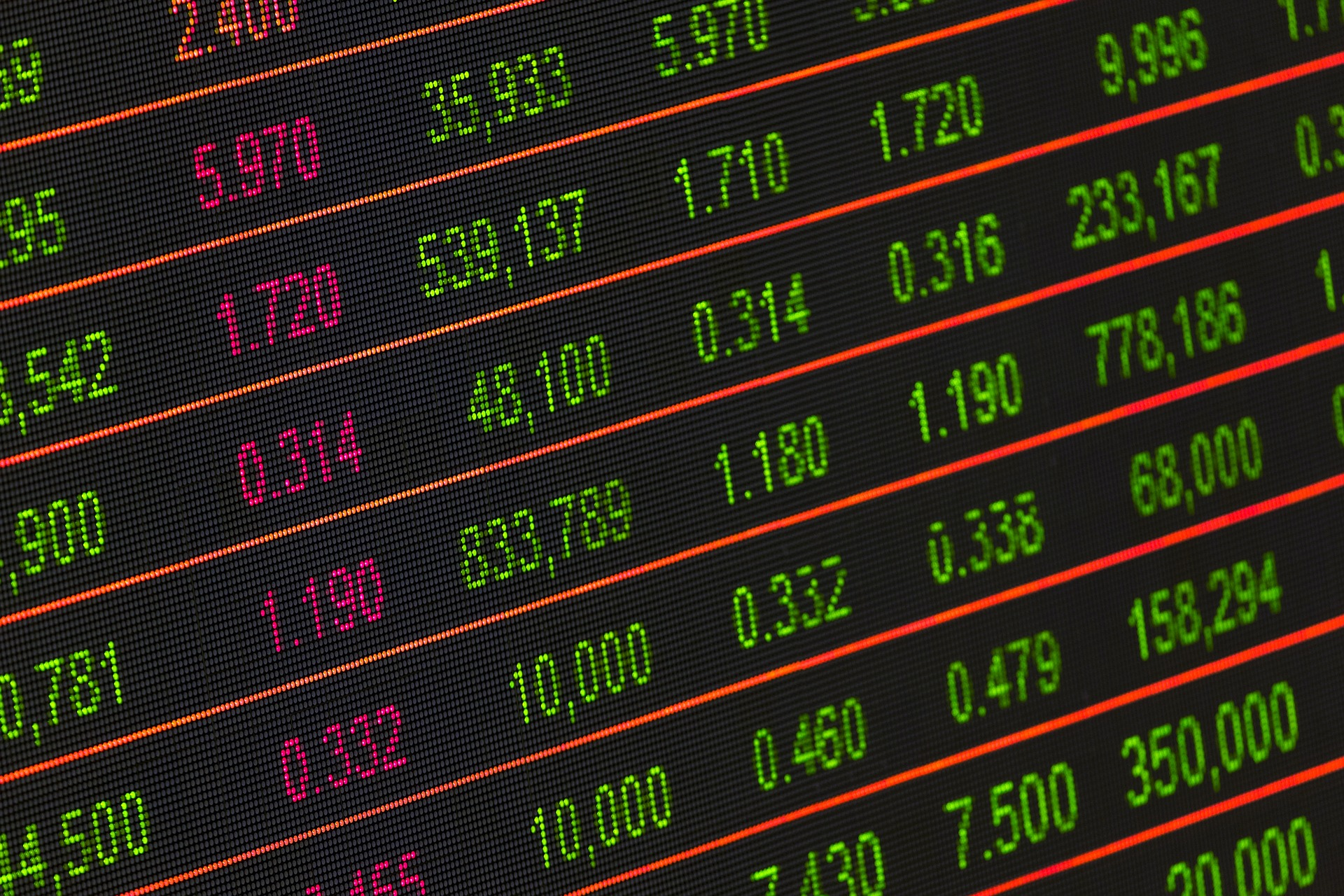 Stocks